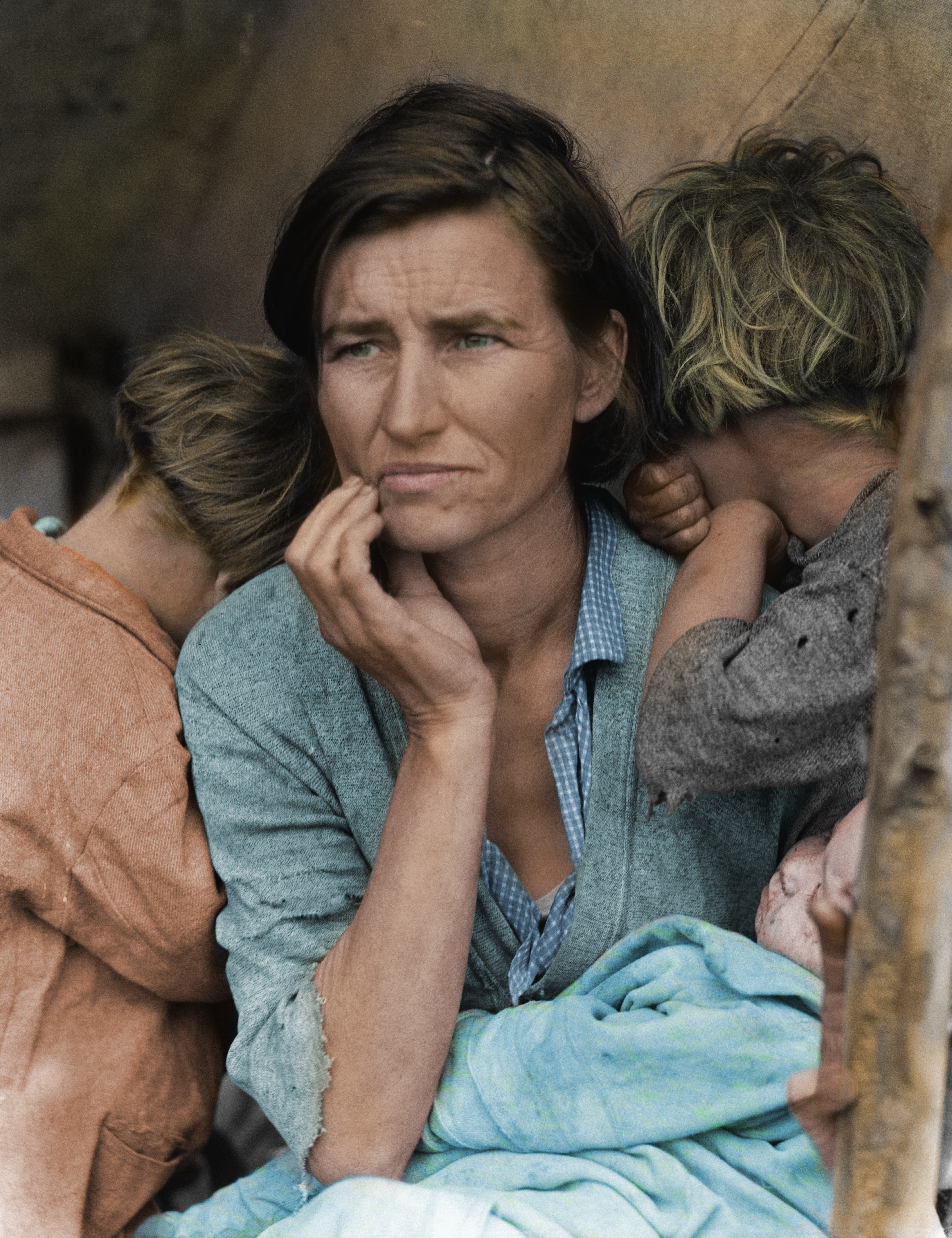 Colorized version of Great Depression photo "Migrant Mother" by Dorothea Lange. Story of Florence Owens Thompson and children depicted in photo: Florence Owens Thompson. This is a retouched picture, which means that it has been digitally altered from its original version. Modifications: Color added using the GIMP. The original can be viewed here: Lange-MigrantMother02.jpg.